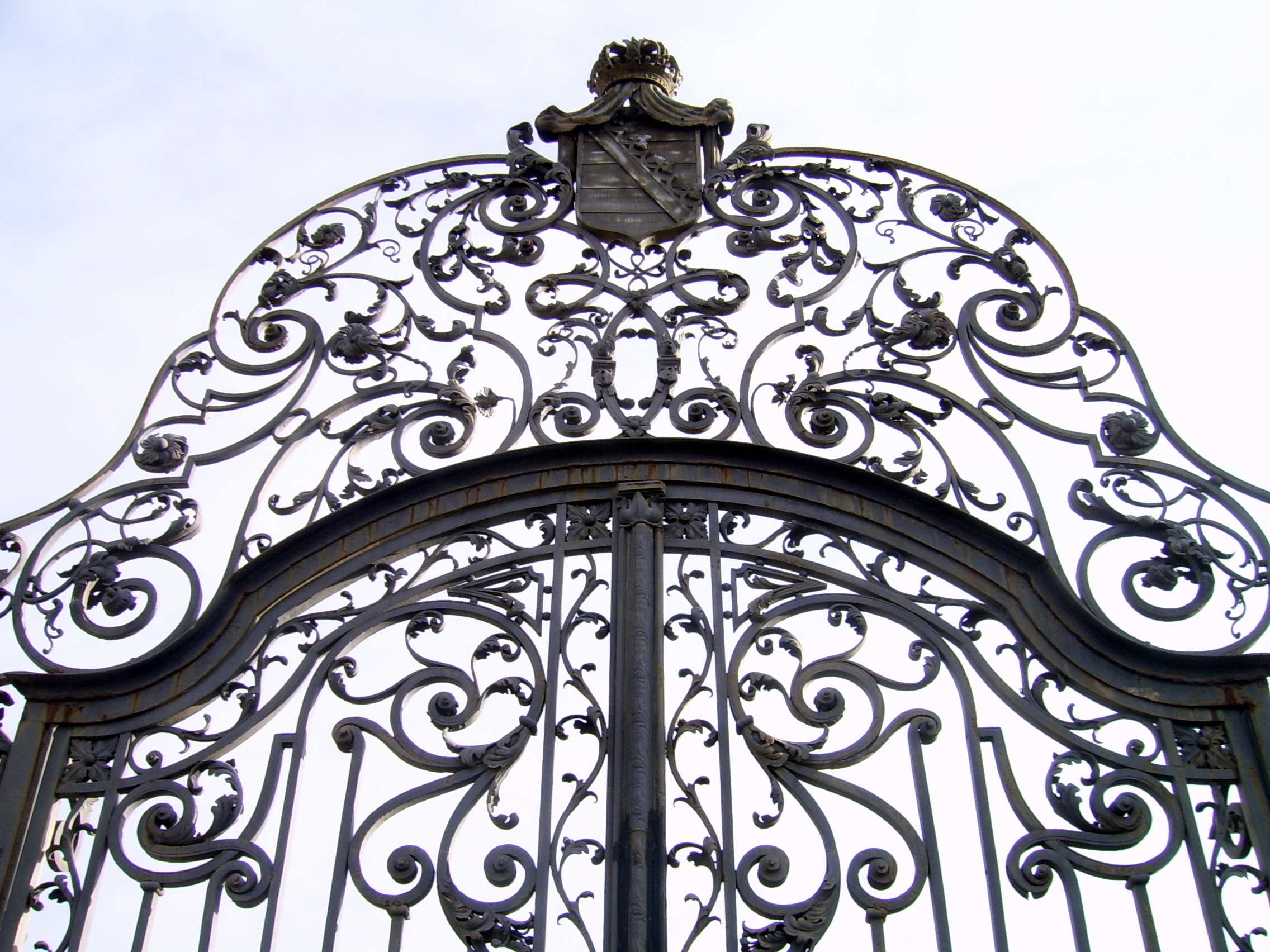 Ironworks on main gate of L'Huillier-Coburg Palace